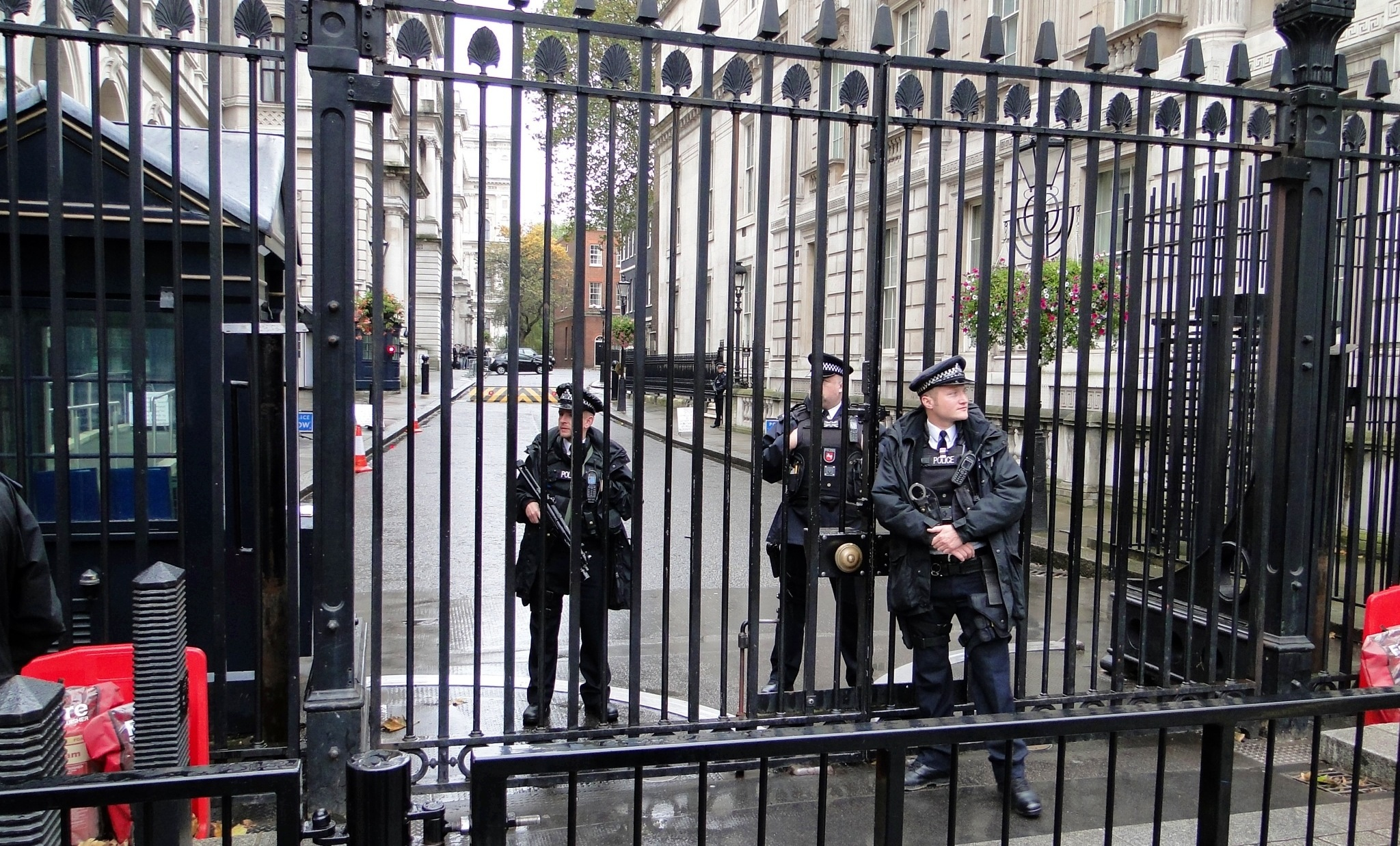 Armed police in front of the main gate at Downing Street, London.